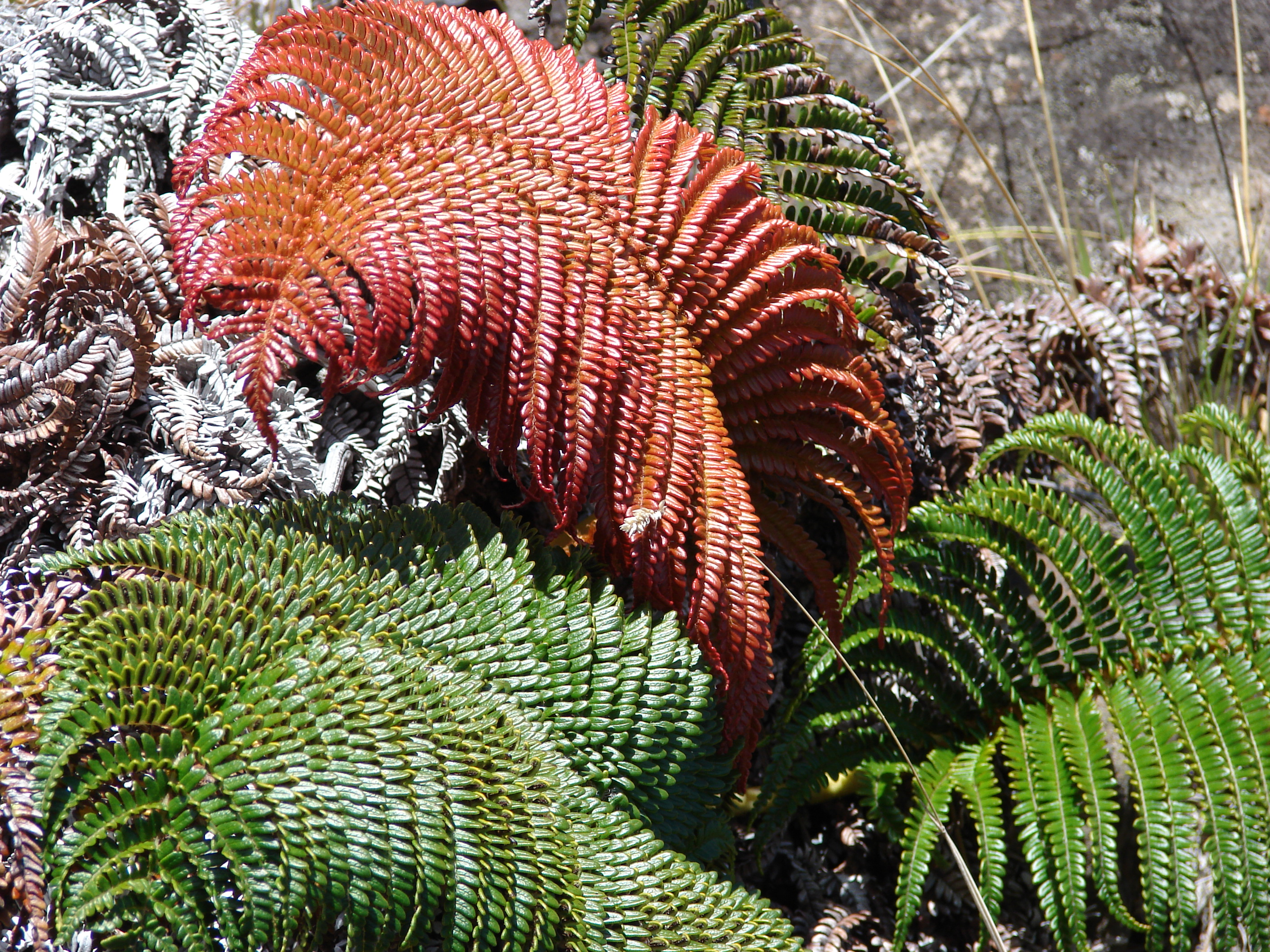 Sadleria cyatheoides (habit with red frond). Location: Maui, Old Switchbacks Trail Haleakala National Park